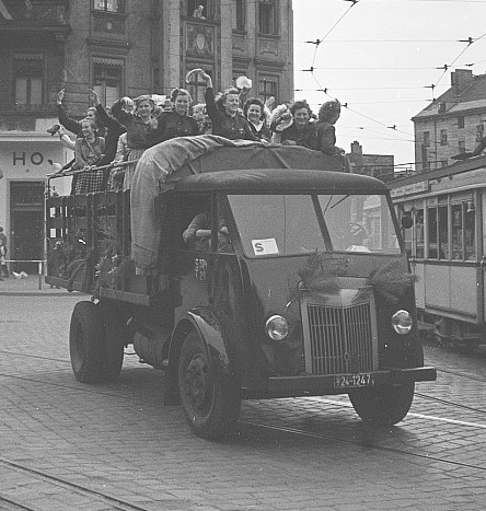 Poissy built Ford truck of prewar design but probably built in the late 1940s following the liberation of France. The truck was introduced as a Matford in the late 1930s, but by 1940 the Mathis/Ford (ie Matford) partnership had run into the sands, amid much litigation, and postwar French built Ford trucks were badged as Fords.